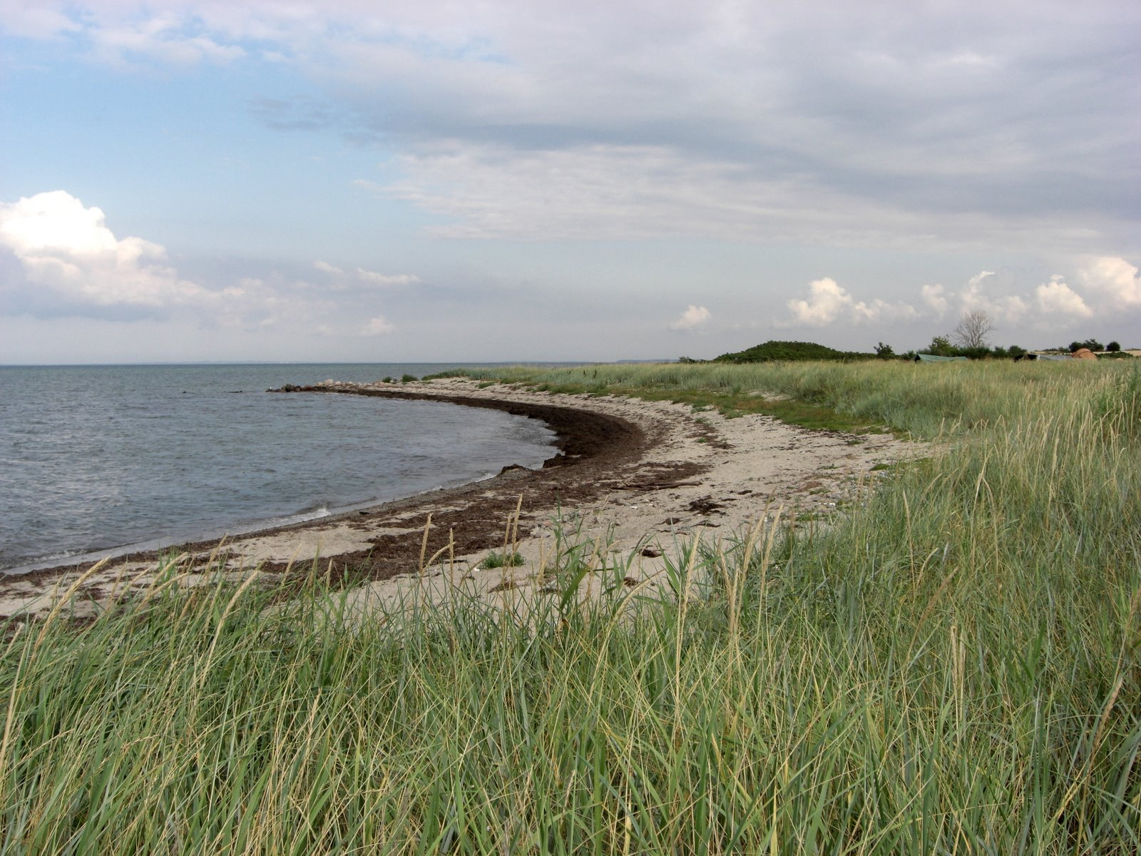 Beach in Femø, Danish island